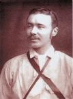 Joseph Thomson was a Scottish explorer of Africa.